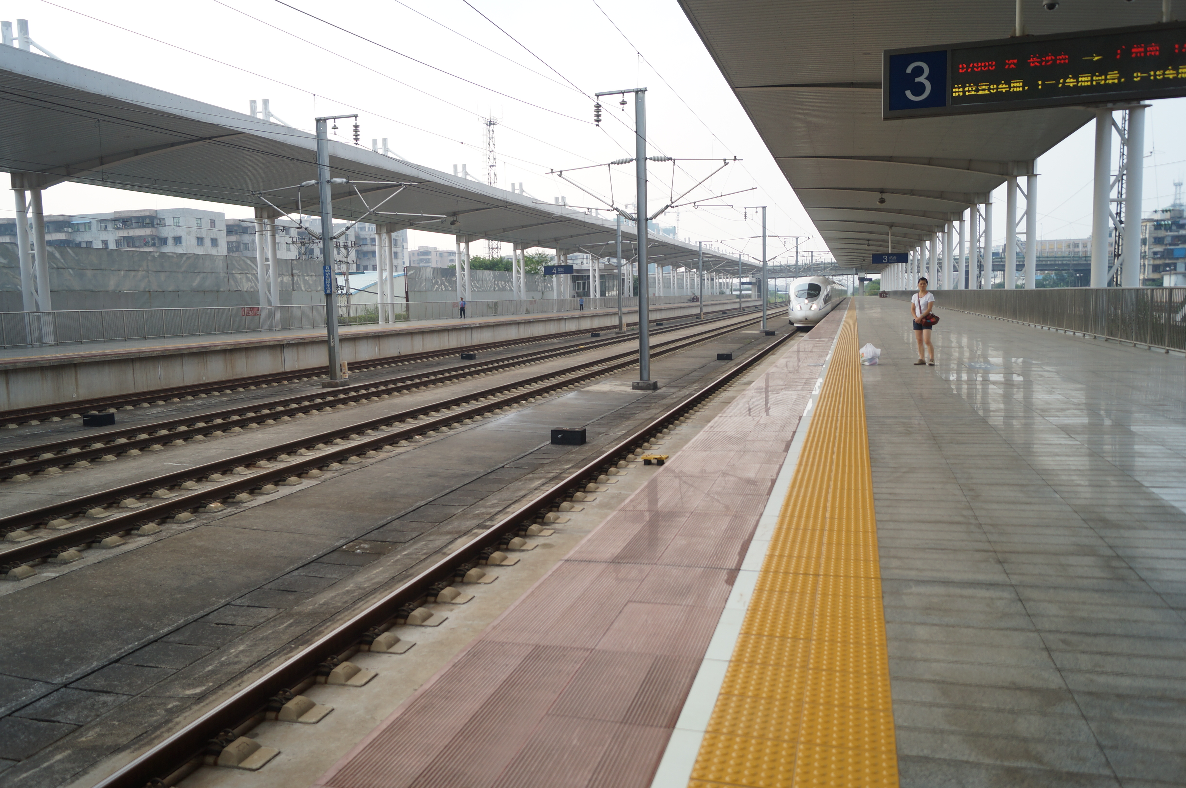 Guangzhou North Railway Station Platform 3.